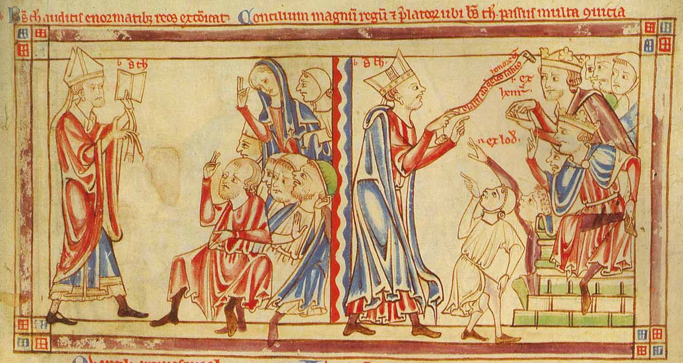 Left: Thomas Becket excommunicates all his enemies in 1166. Right: Becket pleads his case before Henry II (above) and Louis VII (below).